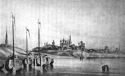 This is a lithographia from book of russian writer Bogolubov Волга от Твери до Астрахани